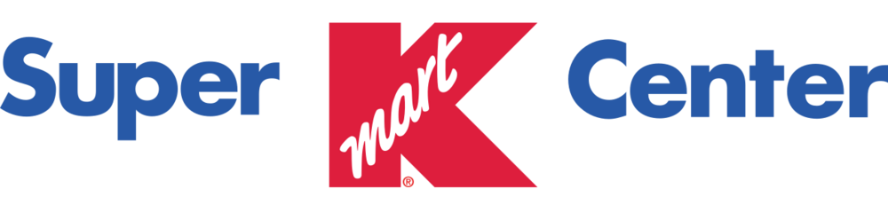 Original logo for the "Super Kmart Centers," used from 1990 through 1997.